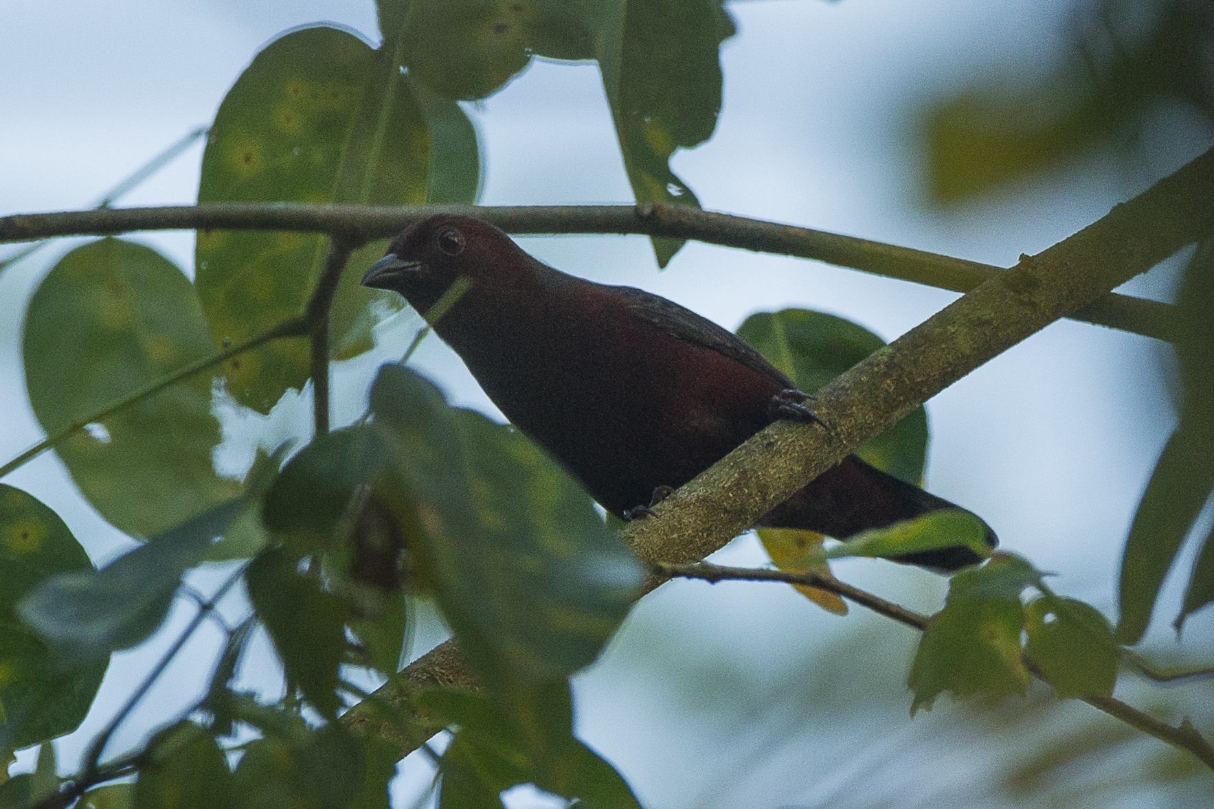 Chestnut-breasted Negrofinch - Kakum - Ghana_S4E1256